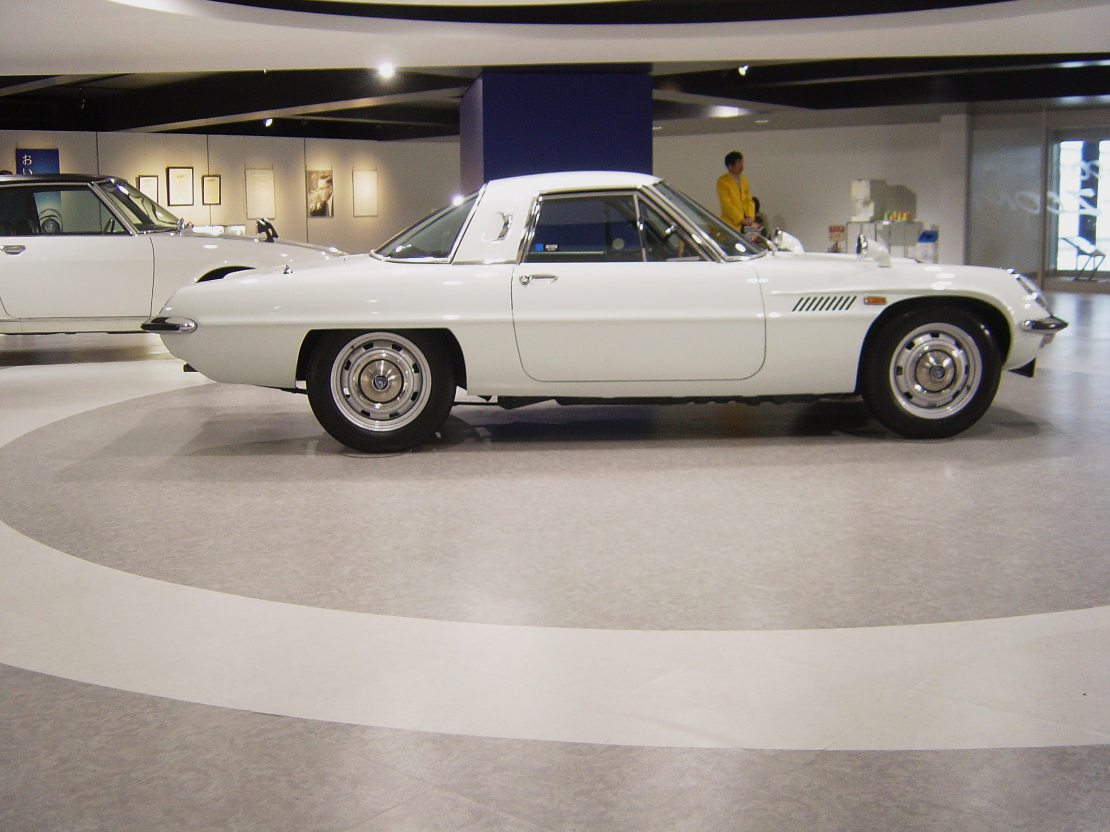 Mazda Comso Sport(マツダ・コスモ、Mazda Comso Sport, ),Mazda Museum.It is an L10B (Series II) model.